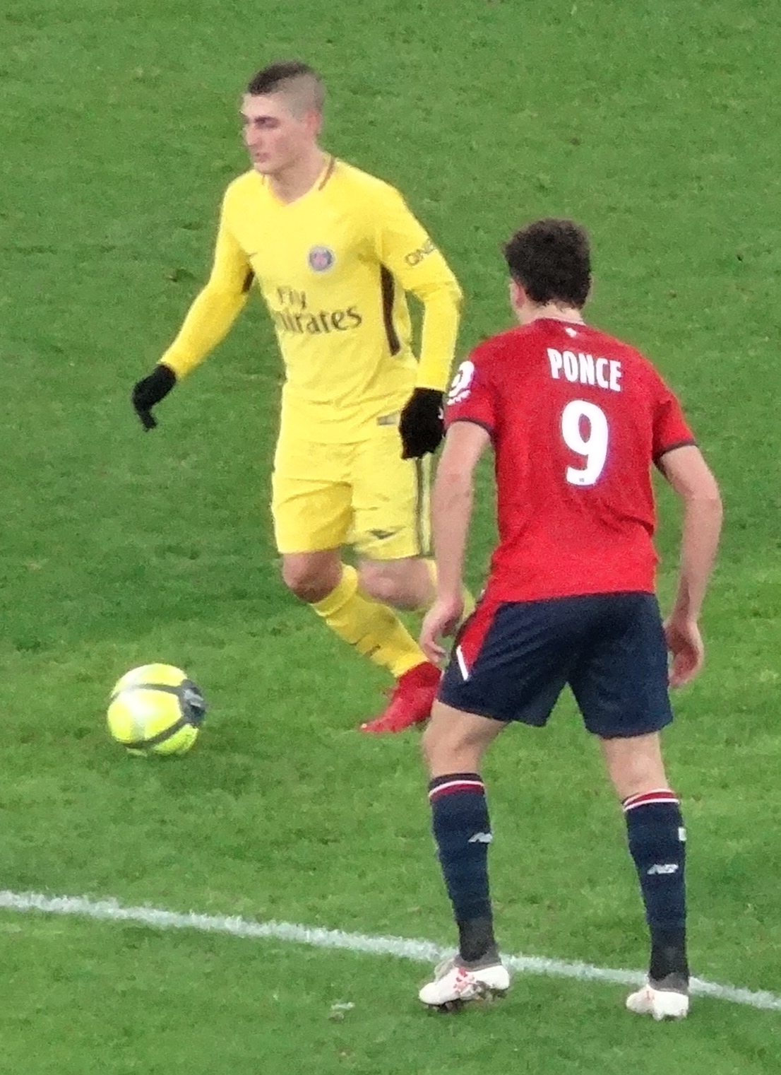 Verratti vs Ponce